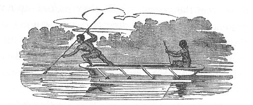 Copy of woodcut done by Phillip Parker King during his voyage of 1818